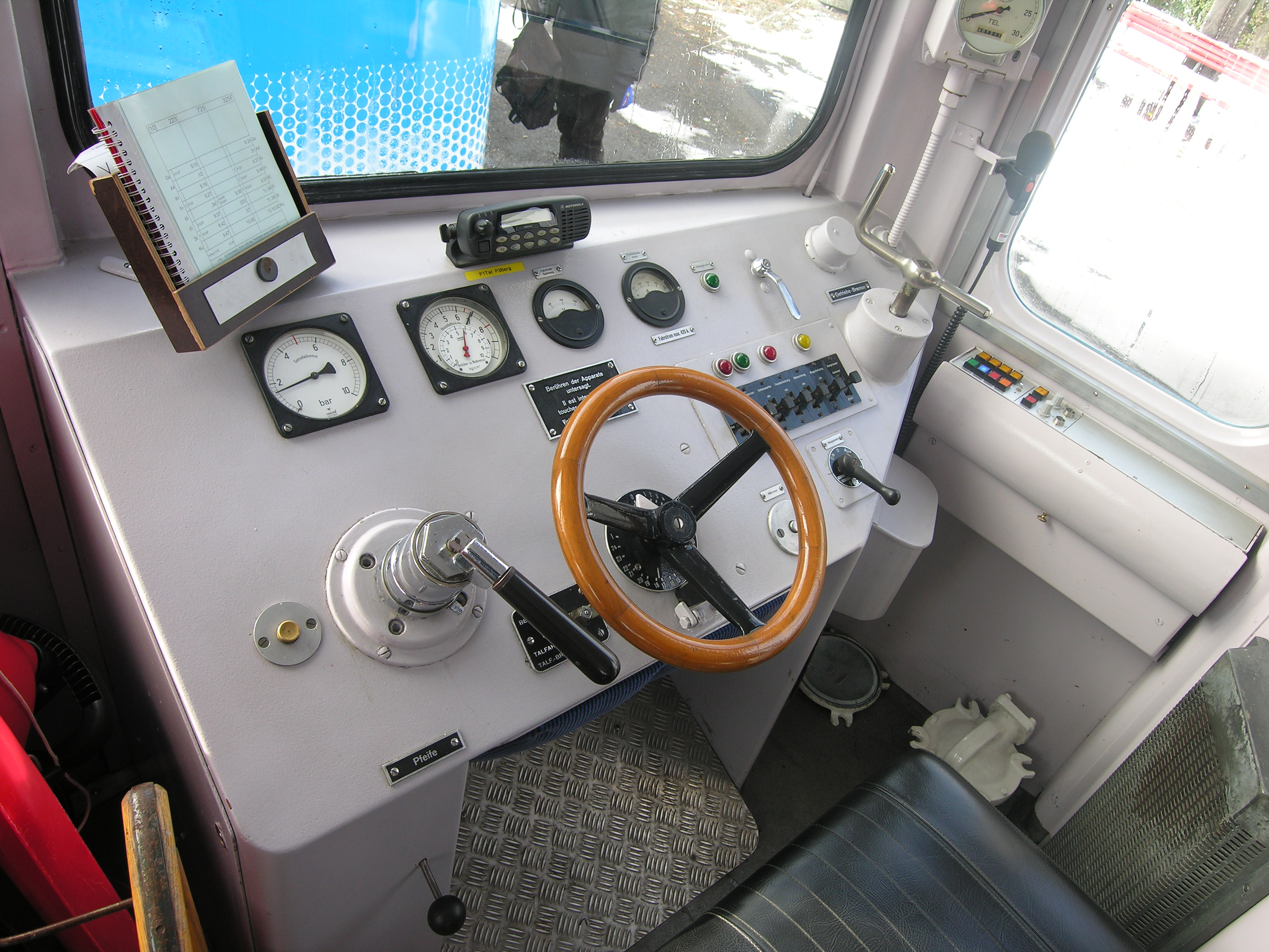 The drivers place in cogwheel train in Rigi Culm, Switerland